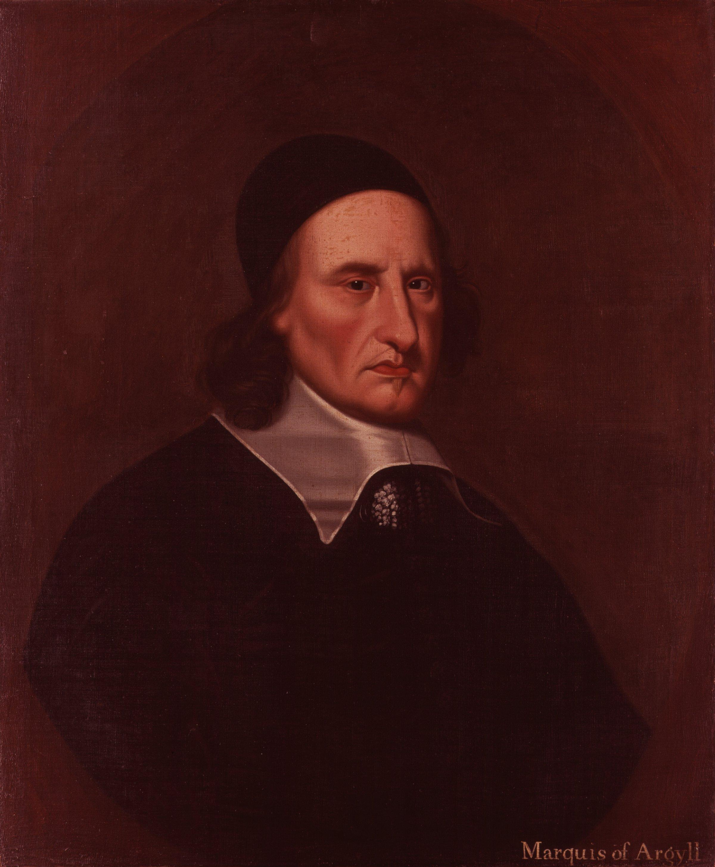 Archibald Campbell, 1st Marquess of Argyll, by David Scougall (floruit 1654-1666). All images in this batch have a known author with unknown death date, but according to the NPG's website the author was floruit (known to be active) prior to 1859, and so is reasonably presumed dead by 1939.